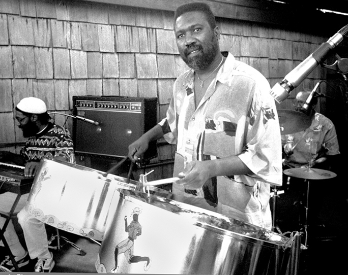 Boogsie Sharpe at Bach Dancing & Dynamite Society, Half Moon Bay CA, 1980s Photo: Brian McMillen /